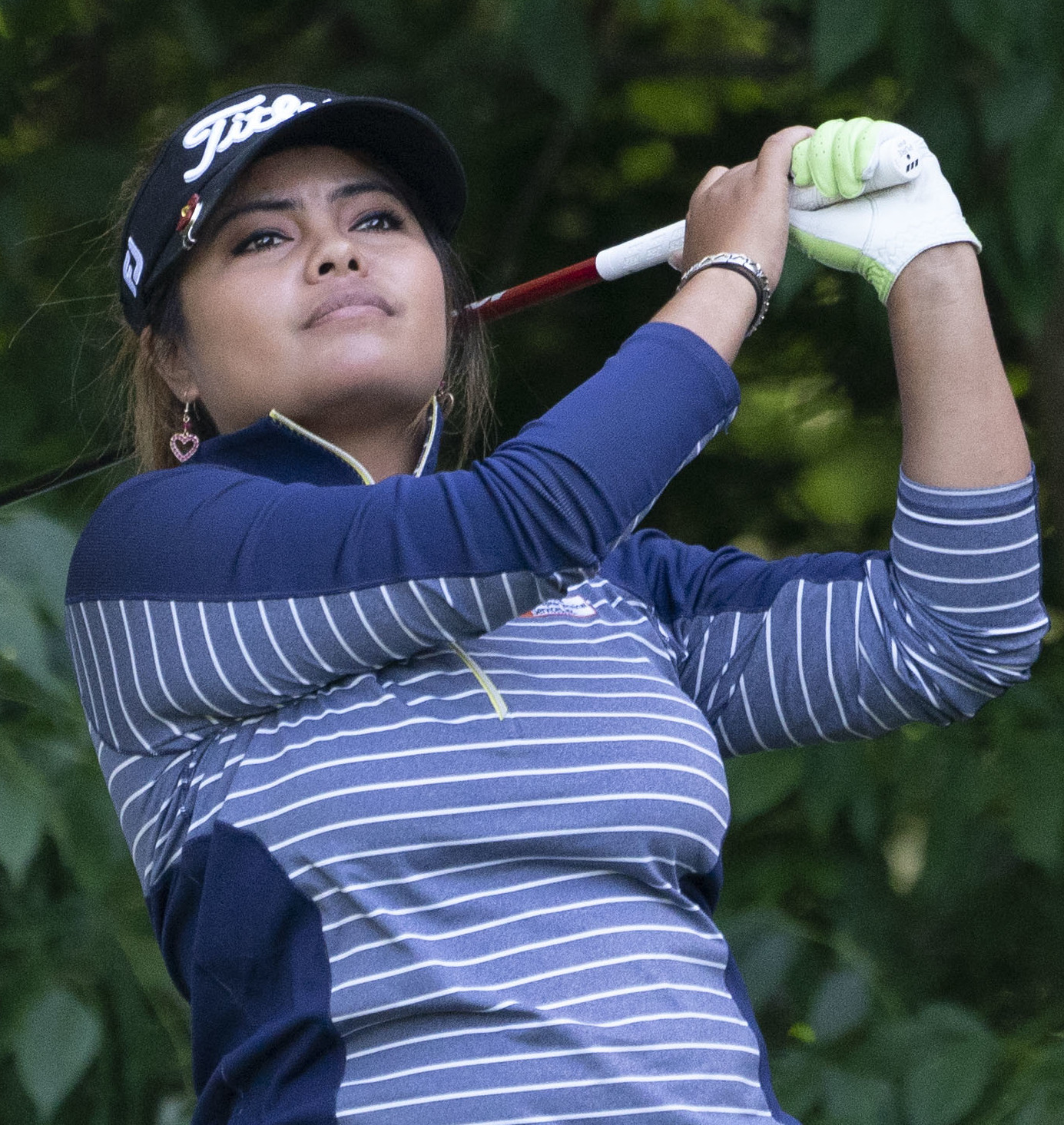 Pure Silk Championship 2019